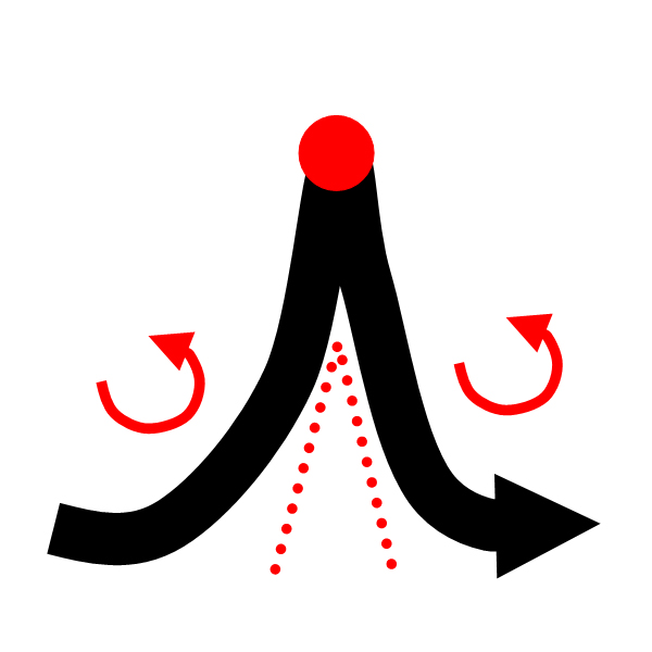 Angle